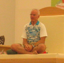 Lama Ole Nydahl teaching at the Phowa course near Kassel in Germany.